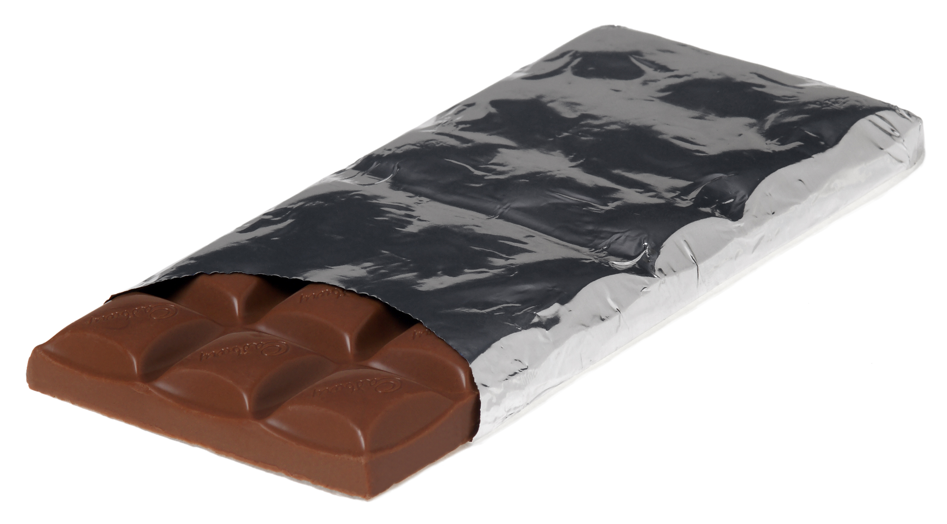 A Cadbury Dairy Milk chocolate bar, filled with caramel.